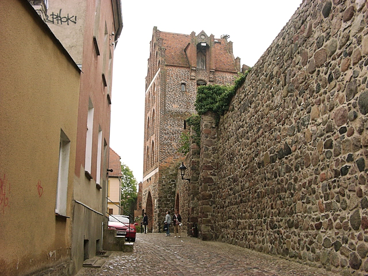 Templin, Uckermark, Brandenburg, Germany. Berlin gate from north.